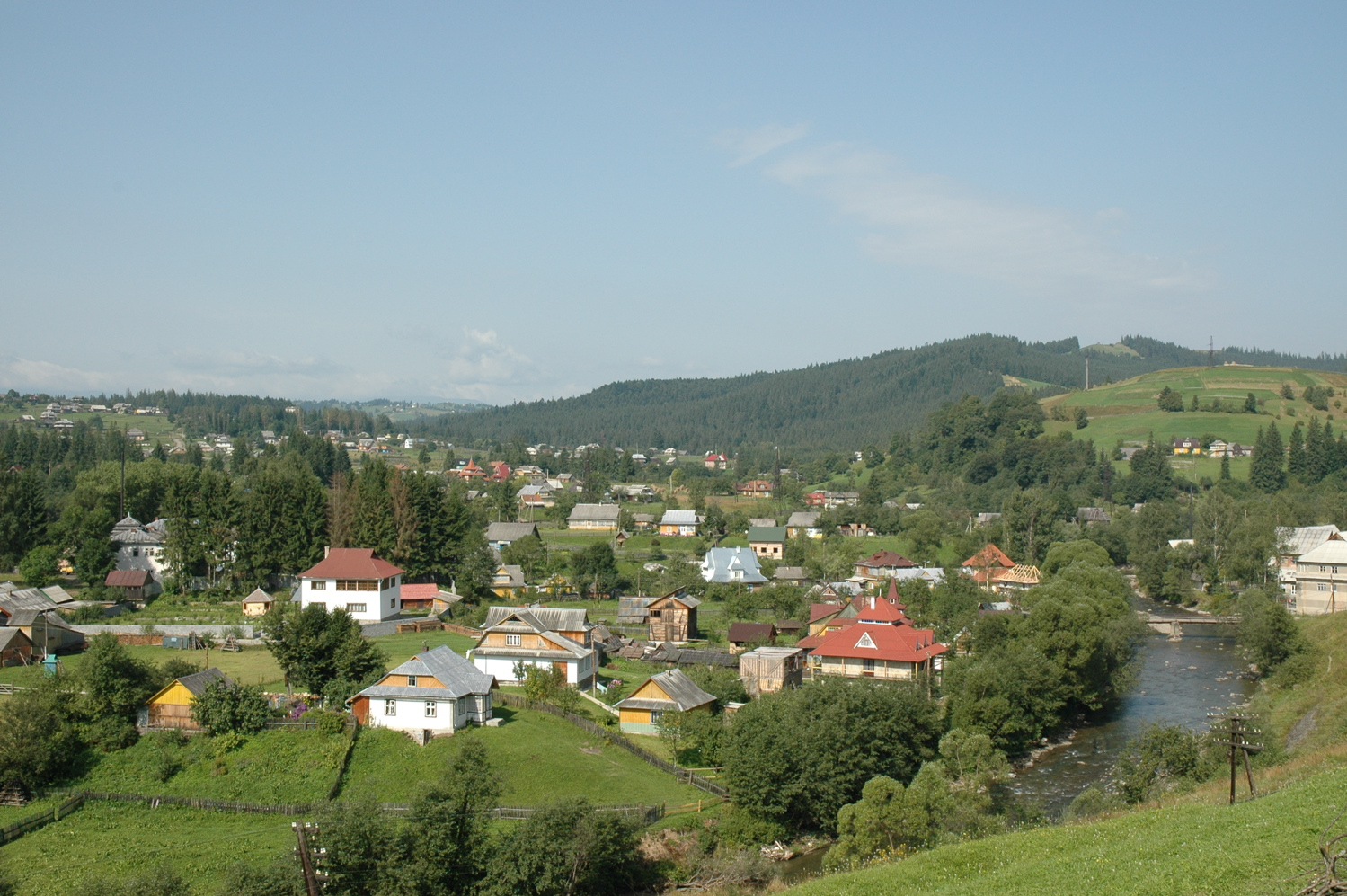 Panoramic view of Vorokhta (Ivano-Frankivsk oblast, Ukraine)